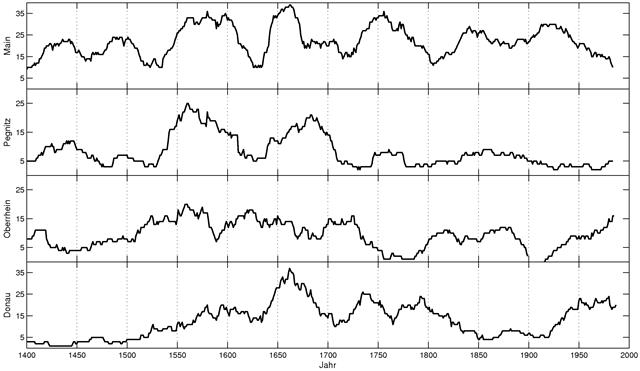 31-year running frequency and intensity levels for the River Rhine, Main, Pegnitz and Danube for the years 1400-2000